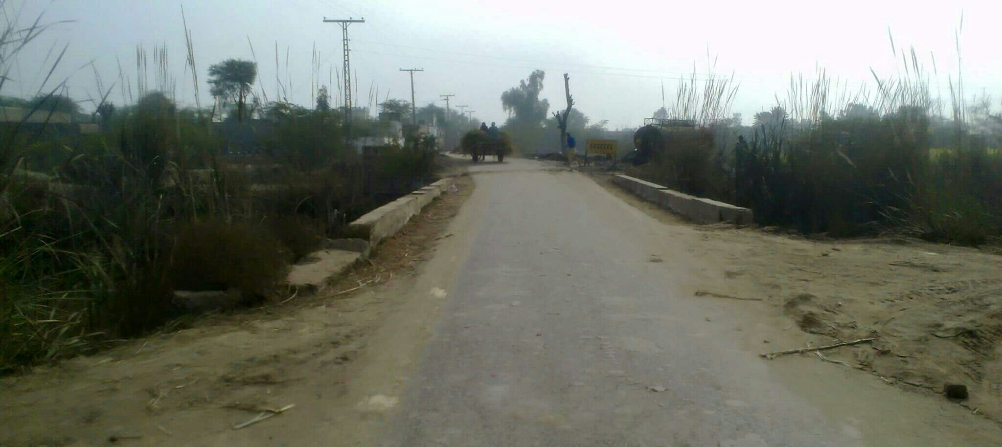 I also Uploaded this Photo on Botala Facebook Page & on website